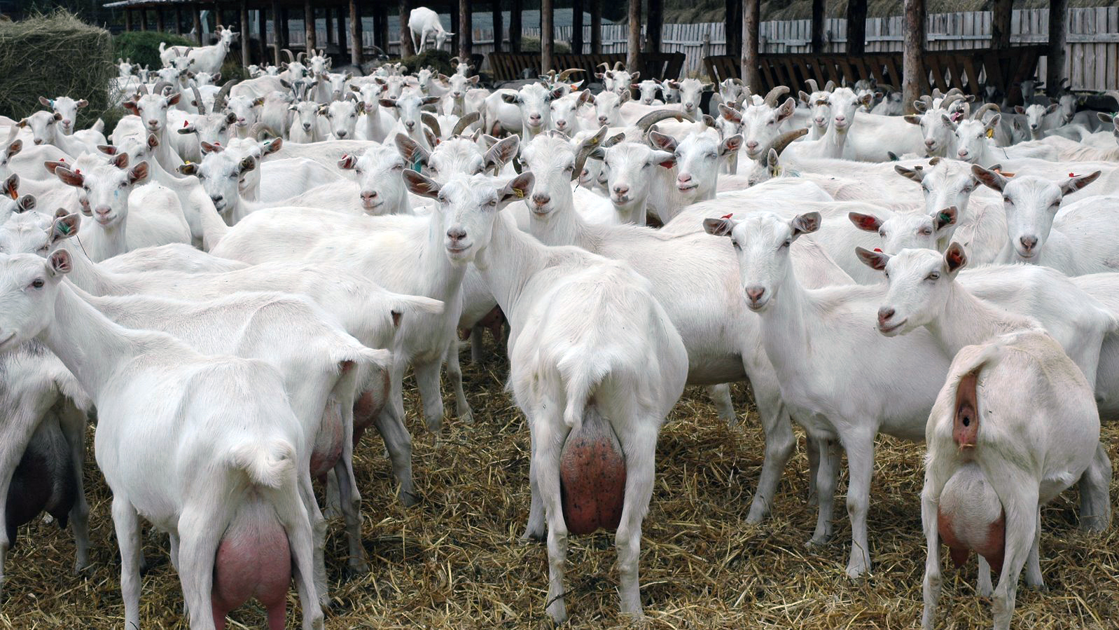 Herd of goats Saanen on Lukoz Farm